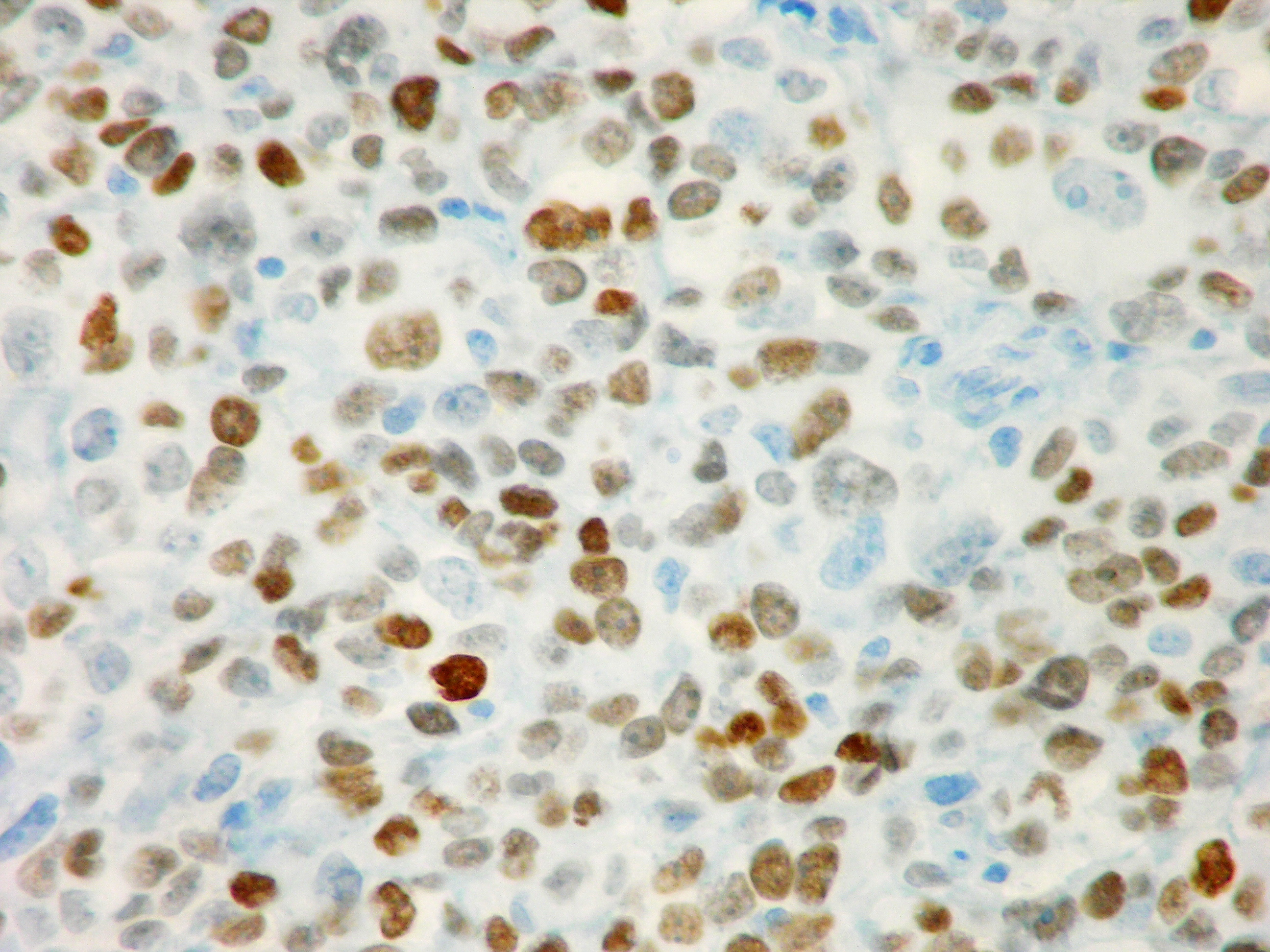 Positive nuclear staining.